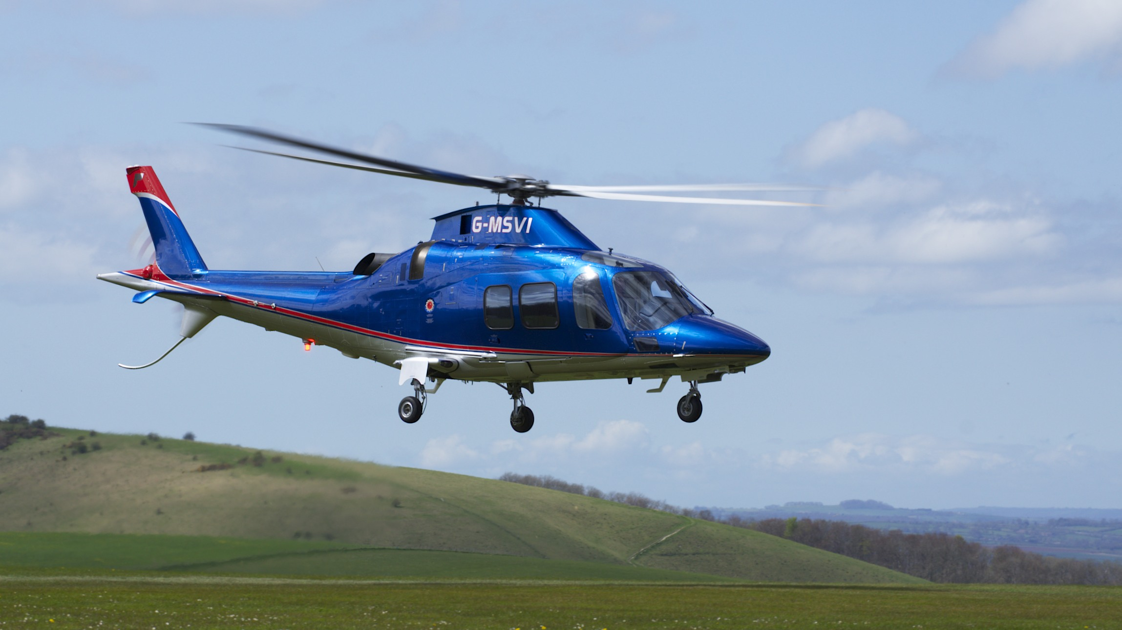 Compton Abbas airfield. Dorset.